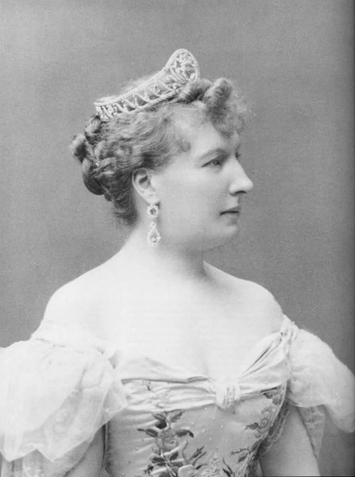 Marie Louise of Belgium, Princess Philip of Saxe-Coburg-Gotha